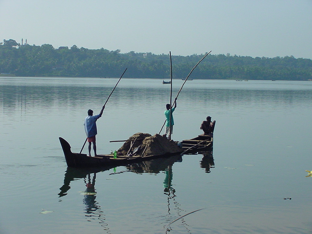 Parassini river, a view from Parassini temple. Mined sand is being brought to shore. Sand mining is a major problem facing by rivers in Kerala.